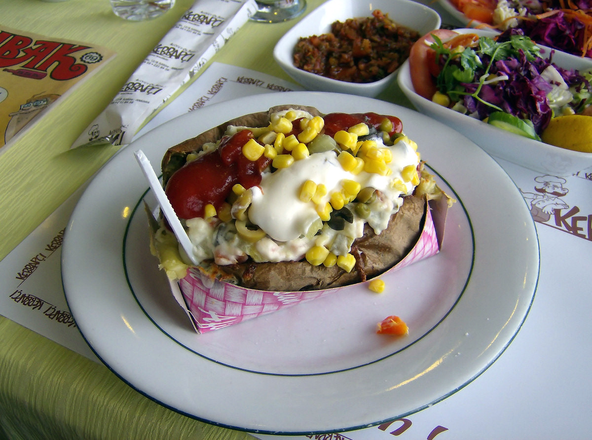 A fine specimen of Turkish fast-food Kumpir, as served in METU, Ankara, Turkey